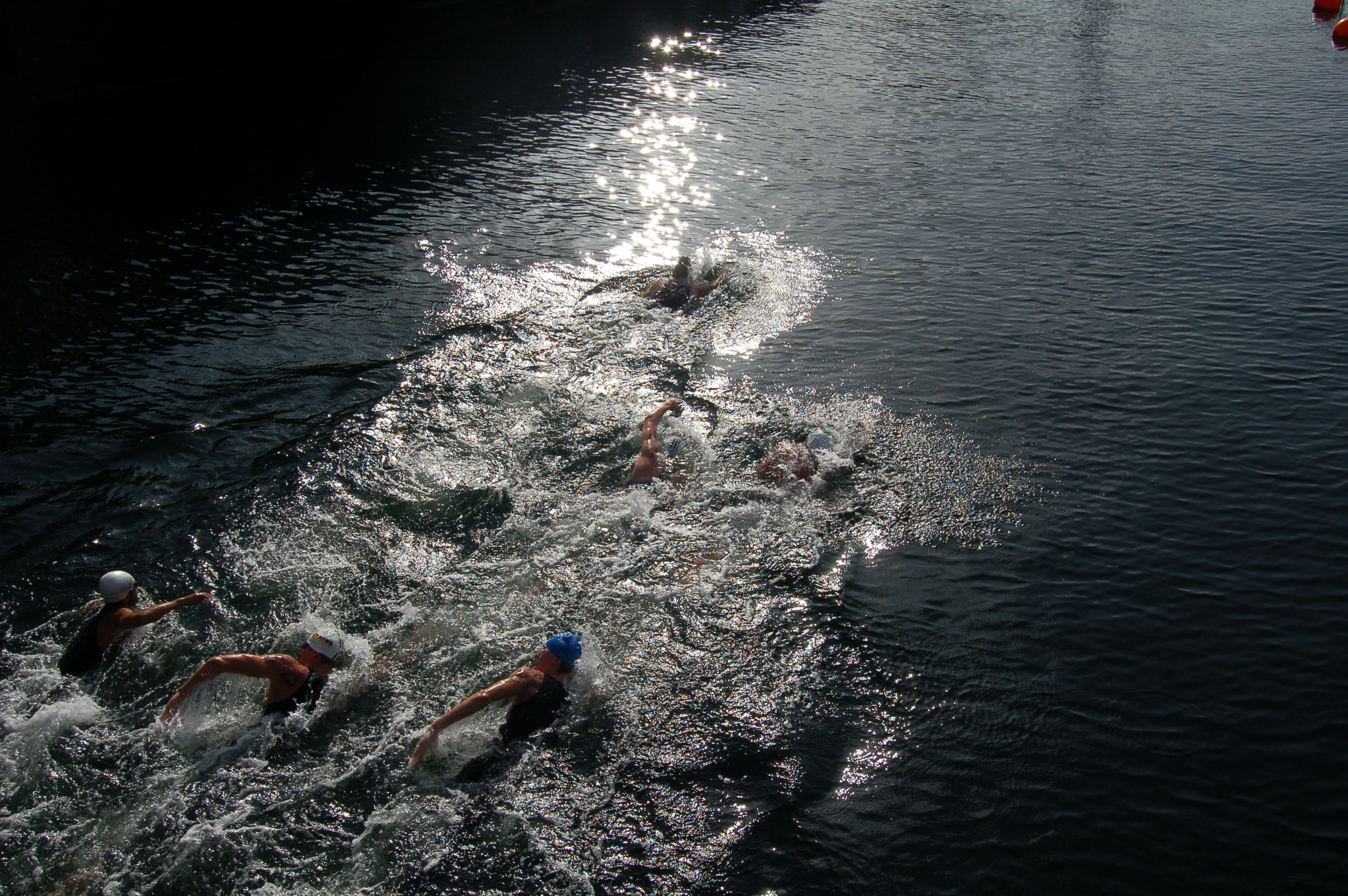 Swimmers in Frederiksholms Canal, Copenhagen, during FINA 10K World Cup event 2009